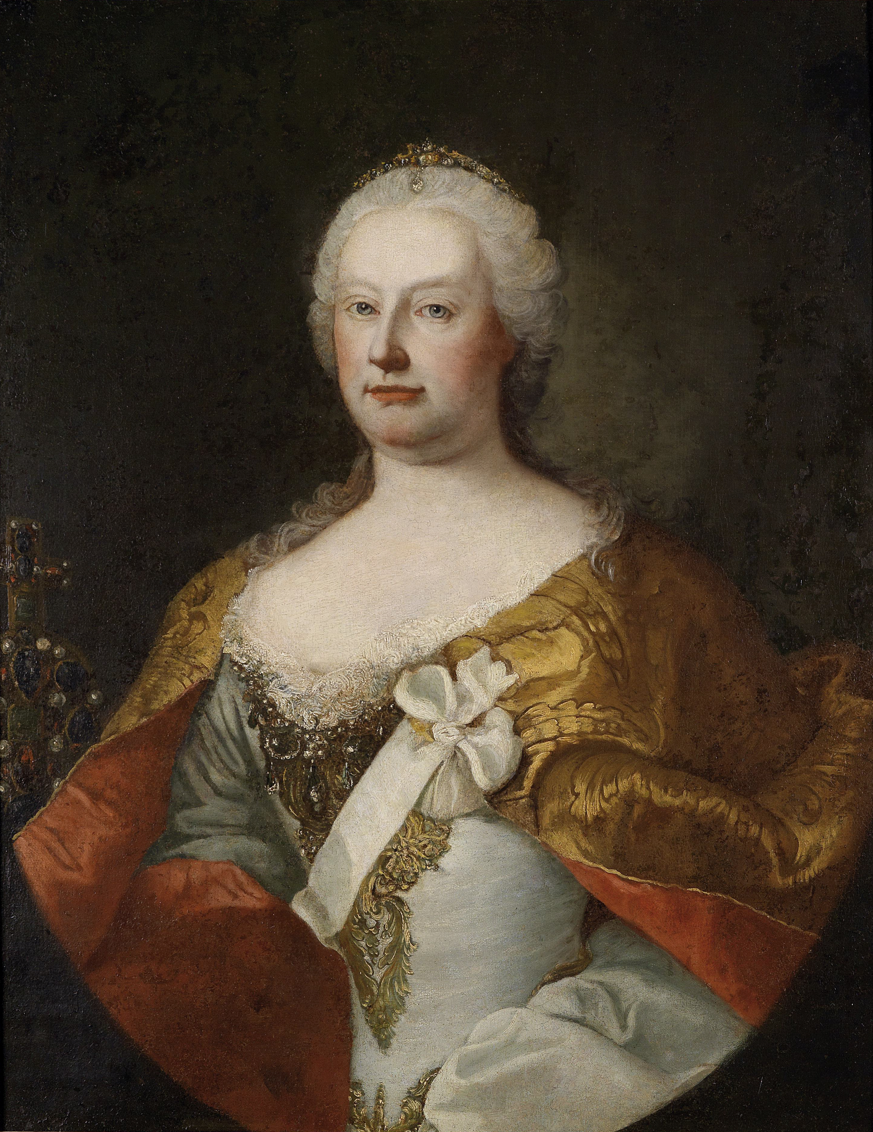 Portrait of Maria Theresia (1717-1780)